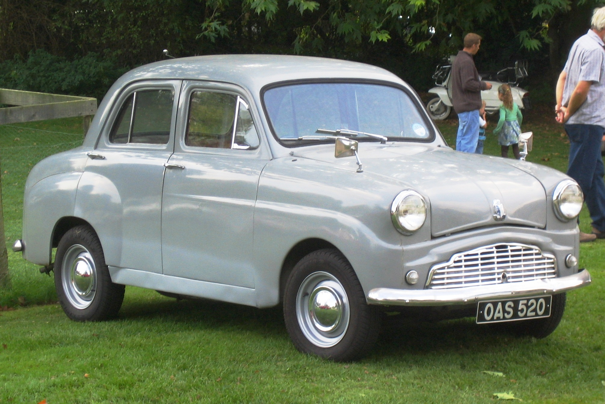 Standard Ten in north Essex. The crome grill identifies this as a post face lift model, presumably sold shortly before the dealer cleared out his stock of Standard Tens and Pennants in order to make more space for Triumph Heralds.